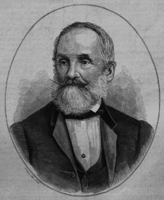 Portrait of Gábor Fábián